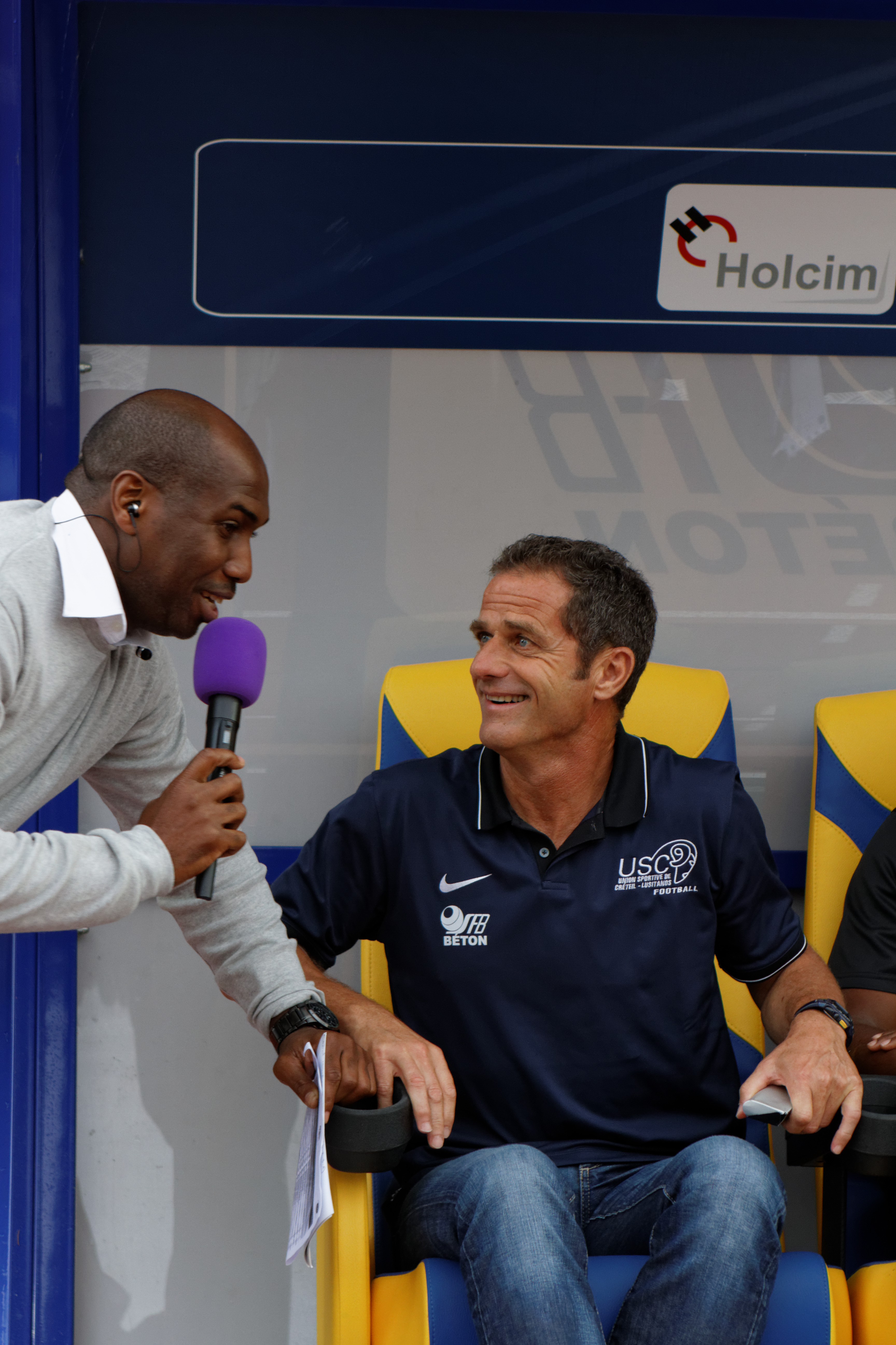 Créteil vs Châteauroux, 8th August 2014. Interview of the coach of Créteil by beIN Sports.